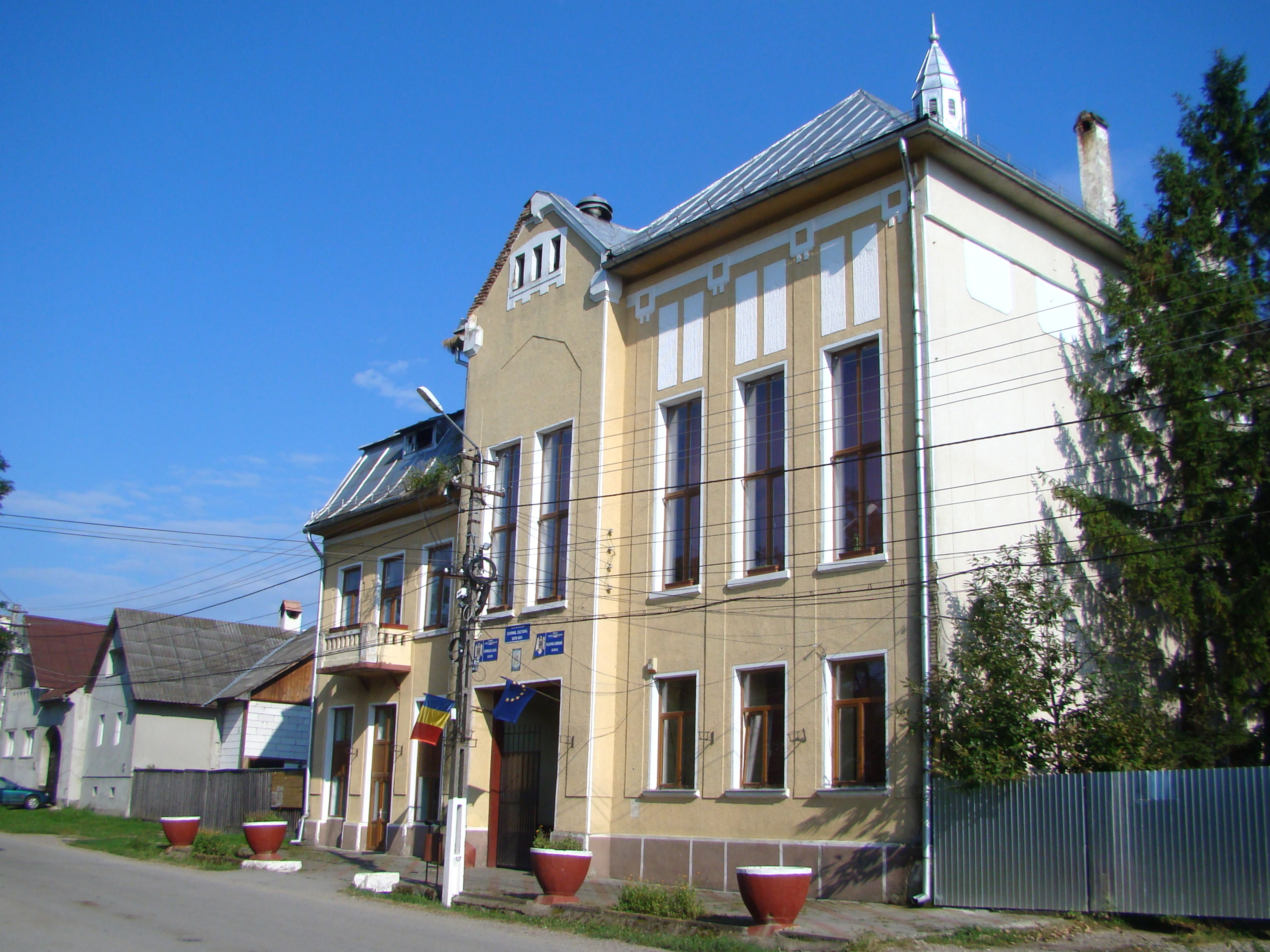 Satu Nou, Bistrița-Năsăud county, Romania